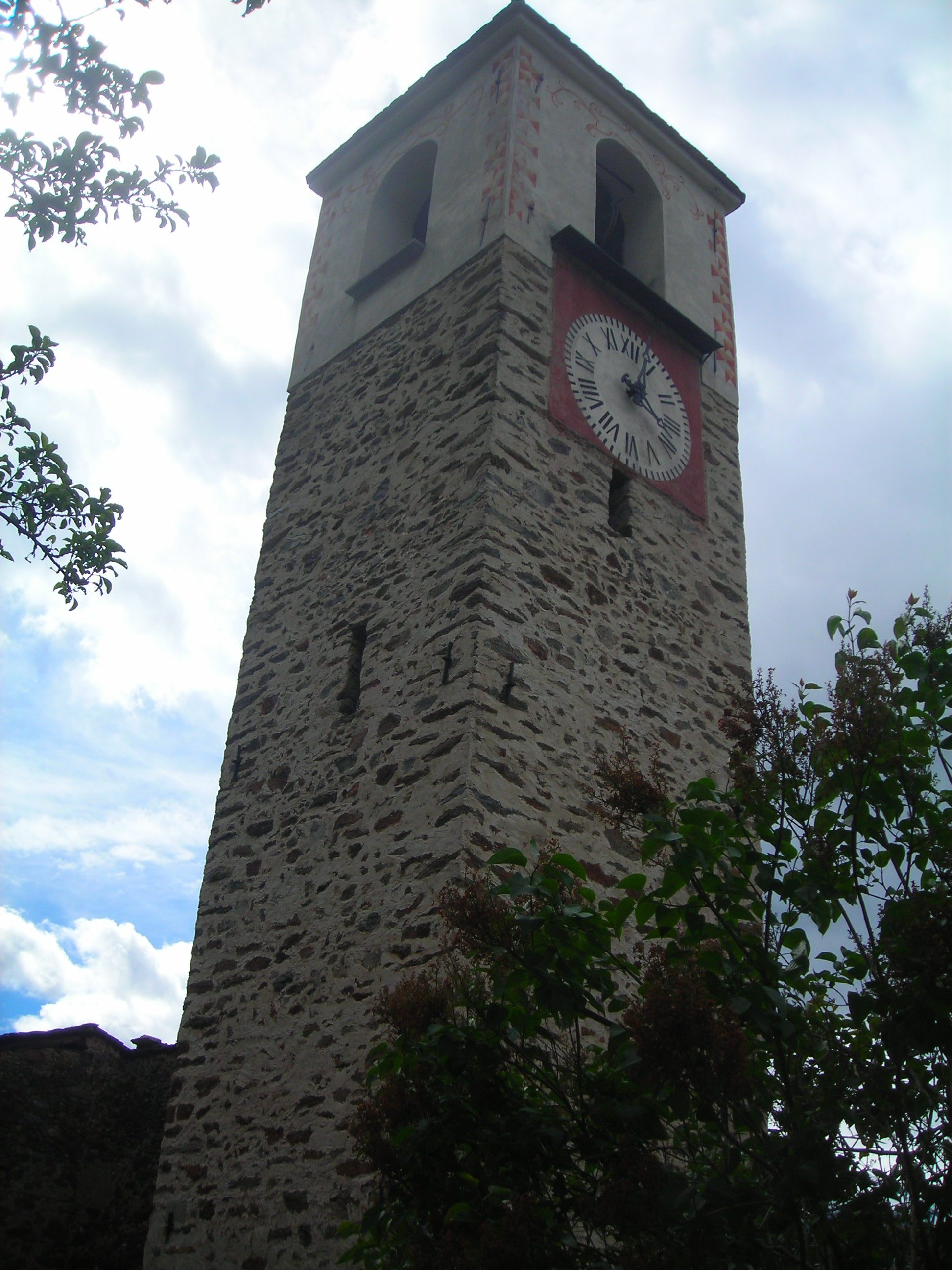 chiesa bv immacolata